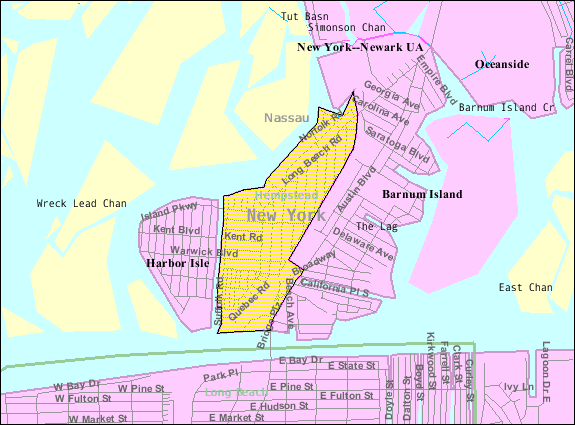 U.S. Census 2000 reference map for Island Park, New York